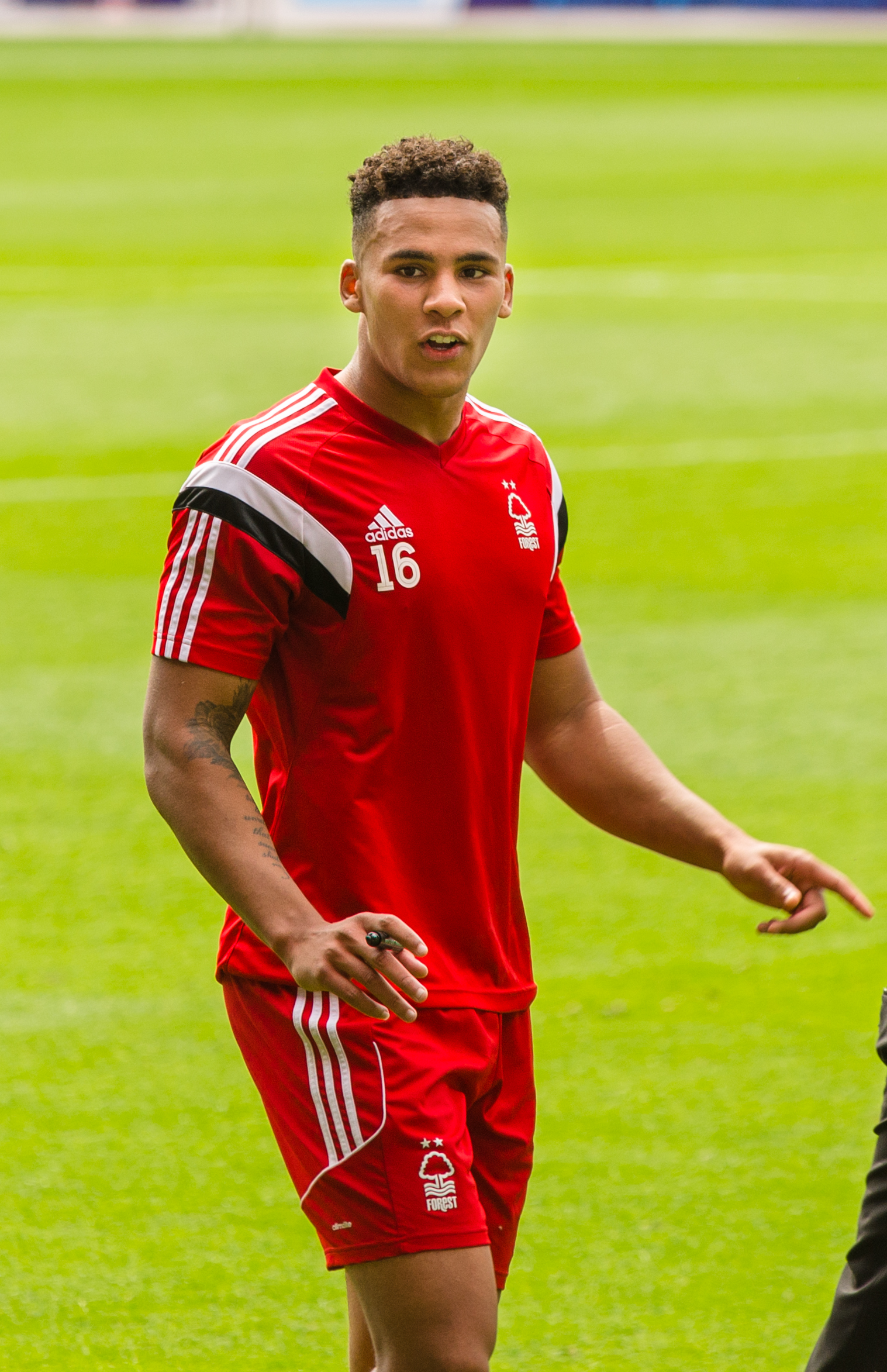 Jamaal Lascelles in training with Nottingham Forest